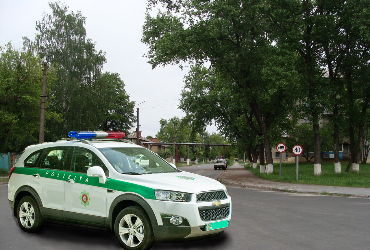 Turkmenistan Police car Chevrolet Captiva